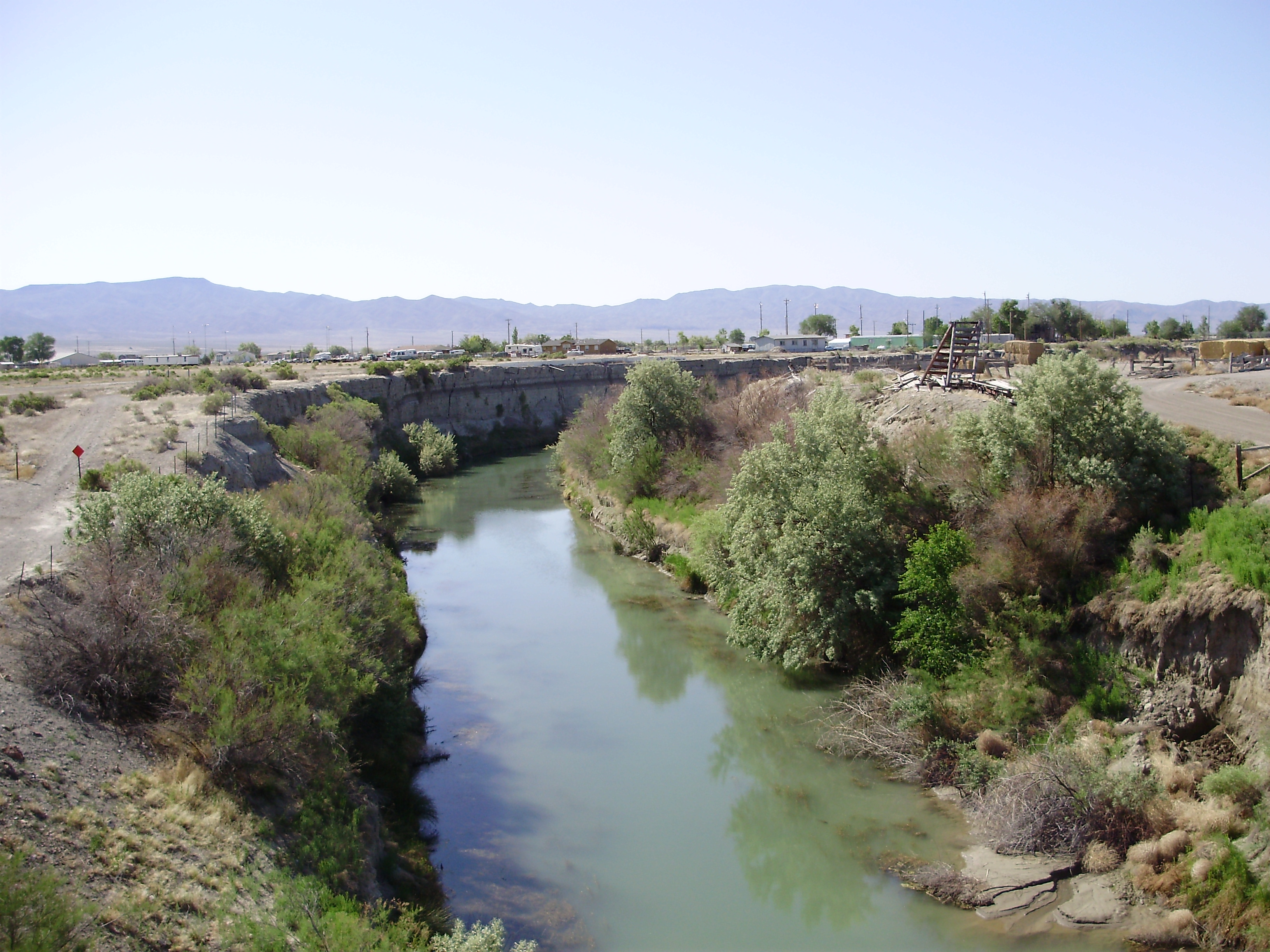 View southwest down the Humboldt River from Interstate 80 just northeast of downtown Lovelock, Nevada